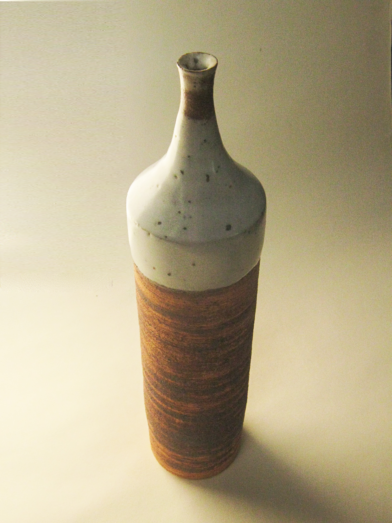 Top-glazed pottery bottle by Ian Sprague; photographed in a private collection at Enfield Victoria